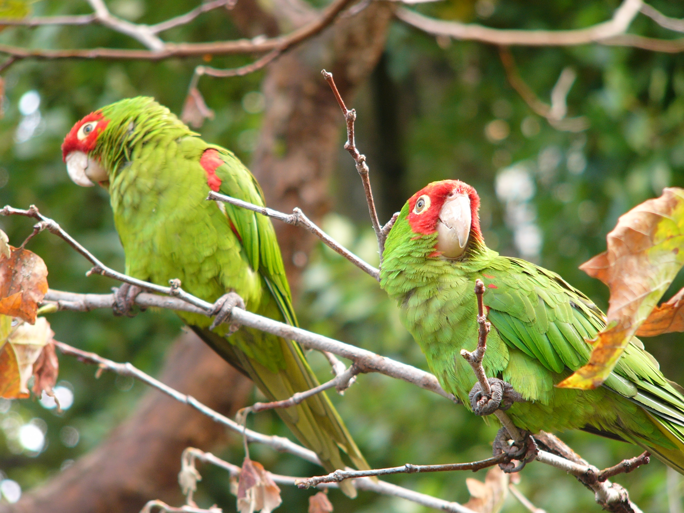 Red-masked parakeet, Aratinga erythrogenys. Two birds in a tree in San Francisco, California.